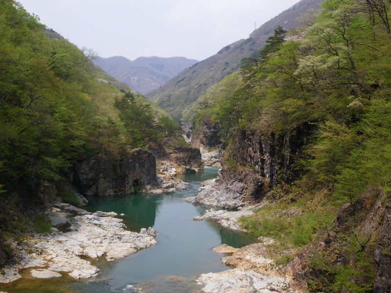 Ryūōkyō is a gorge in Nikkō, Tochigi, Japan.